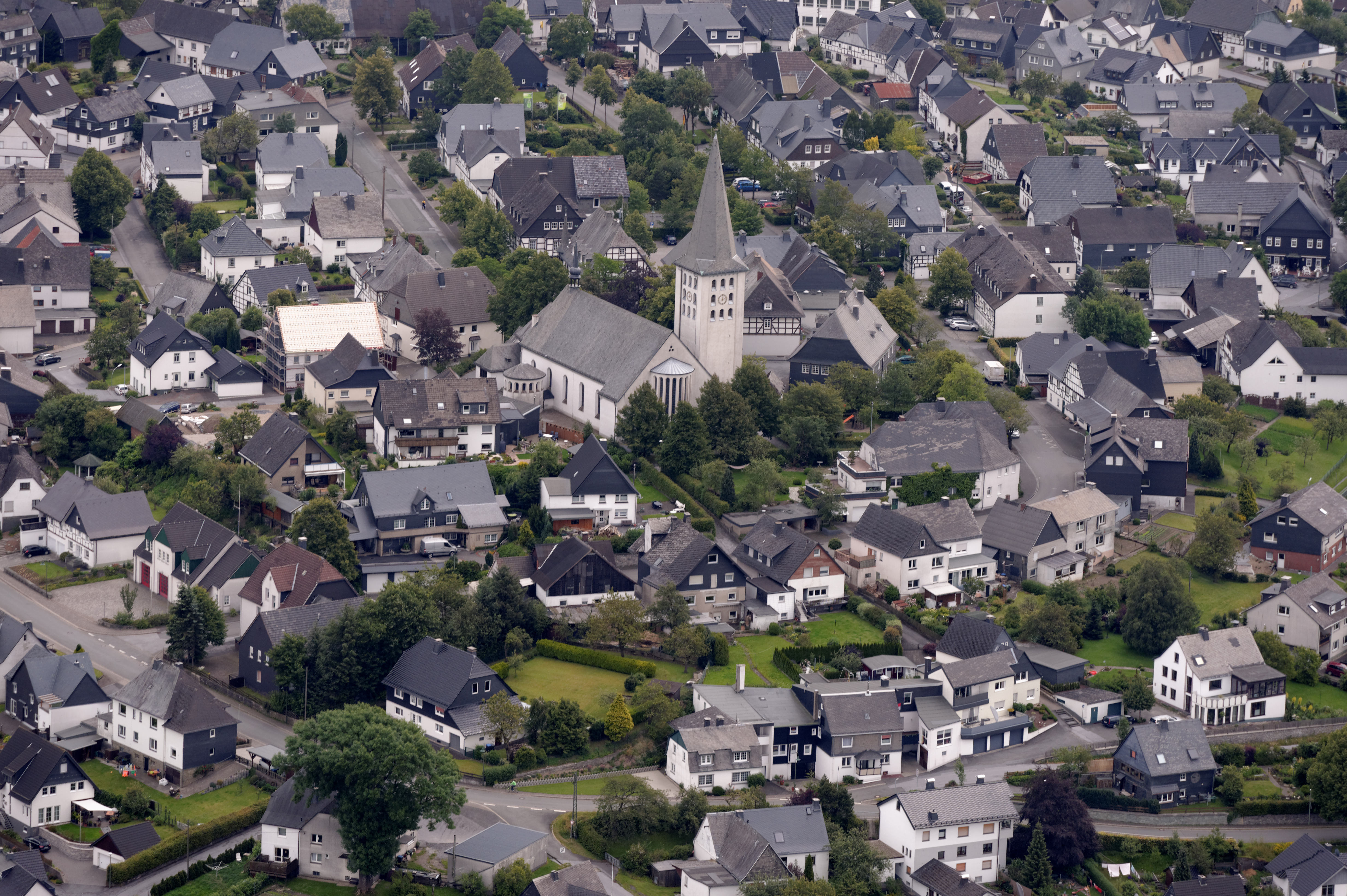 Fotoflug Sauerland Nord, Pfarrkirche St. Christophorus in Warstein-Hirschberg The making of this document was supported by the Community-Budget of Wikimedia Germany.